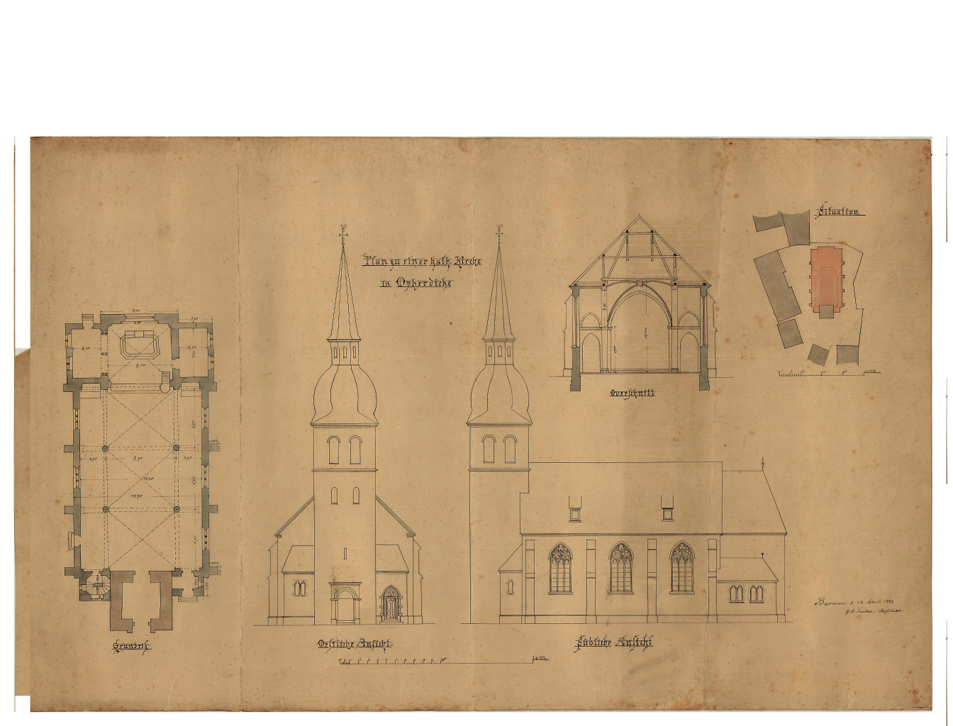 Plans of the St. Stephanus church in Holzwickede-Opherdicke from 1893